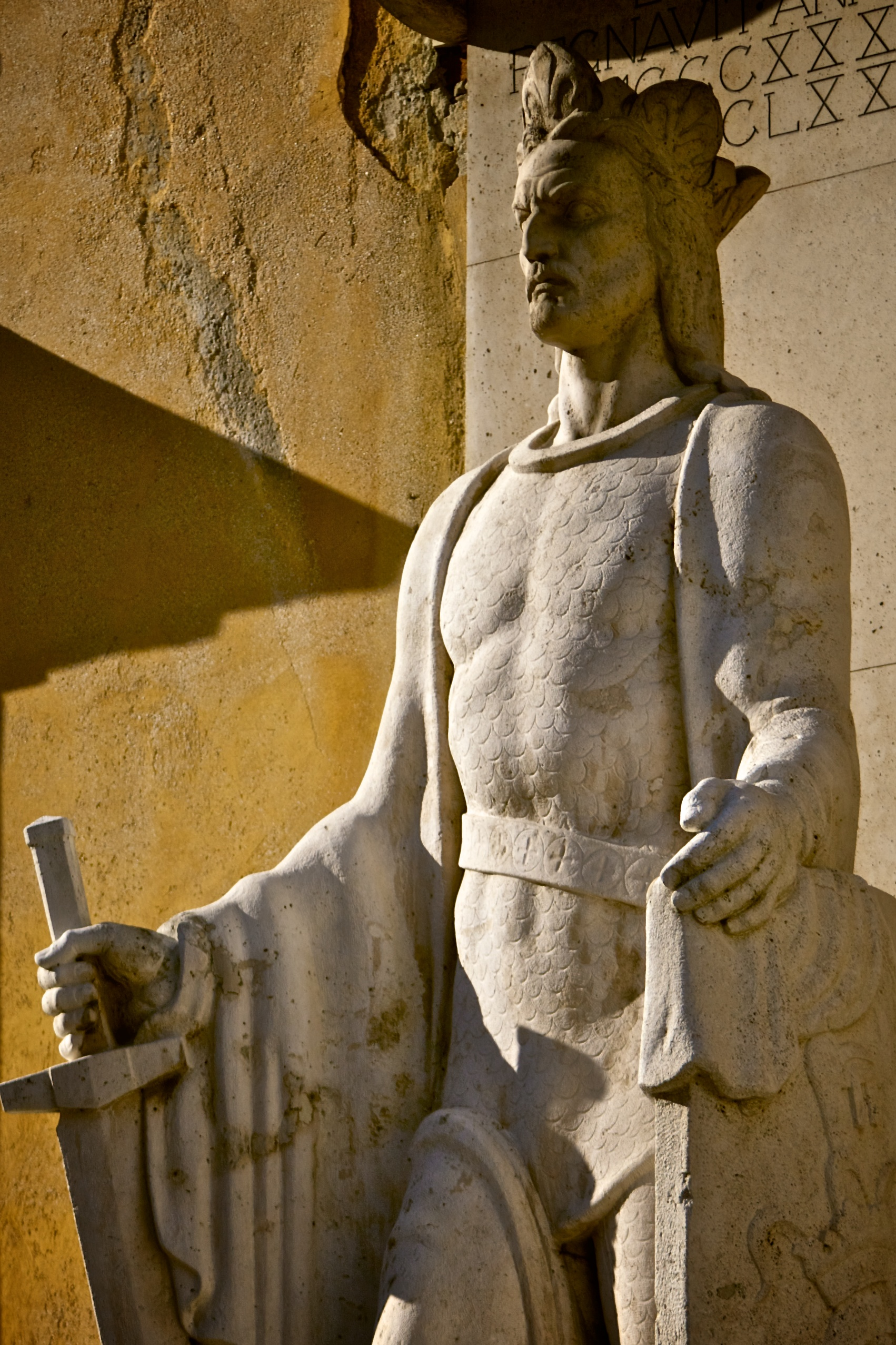 Statue of Lajos Nagy with crown and sword (1932) at the Our Lady of Mount Carmel Church. Listed ID 3883. - Petőfi & Kossuth streets corner, Downtown, Székesfehérvár, Fejér County, Hungary